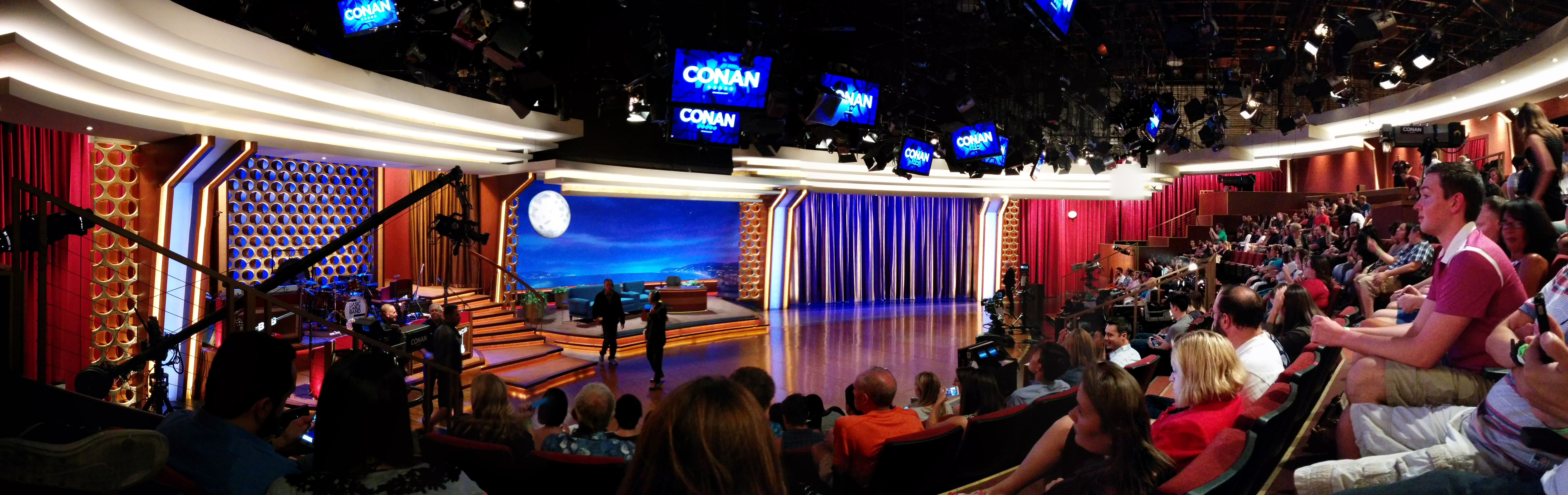 Conan set and production panorama taken inside Stage 15 on the Warner Bros. lot in Burbank, California.